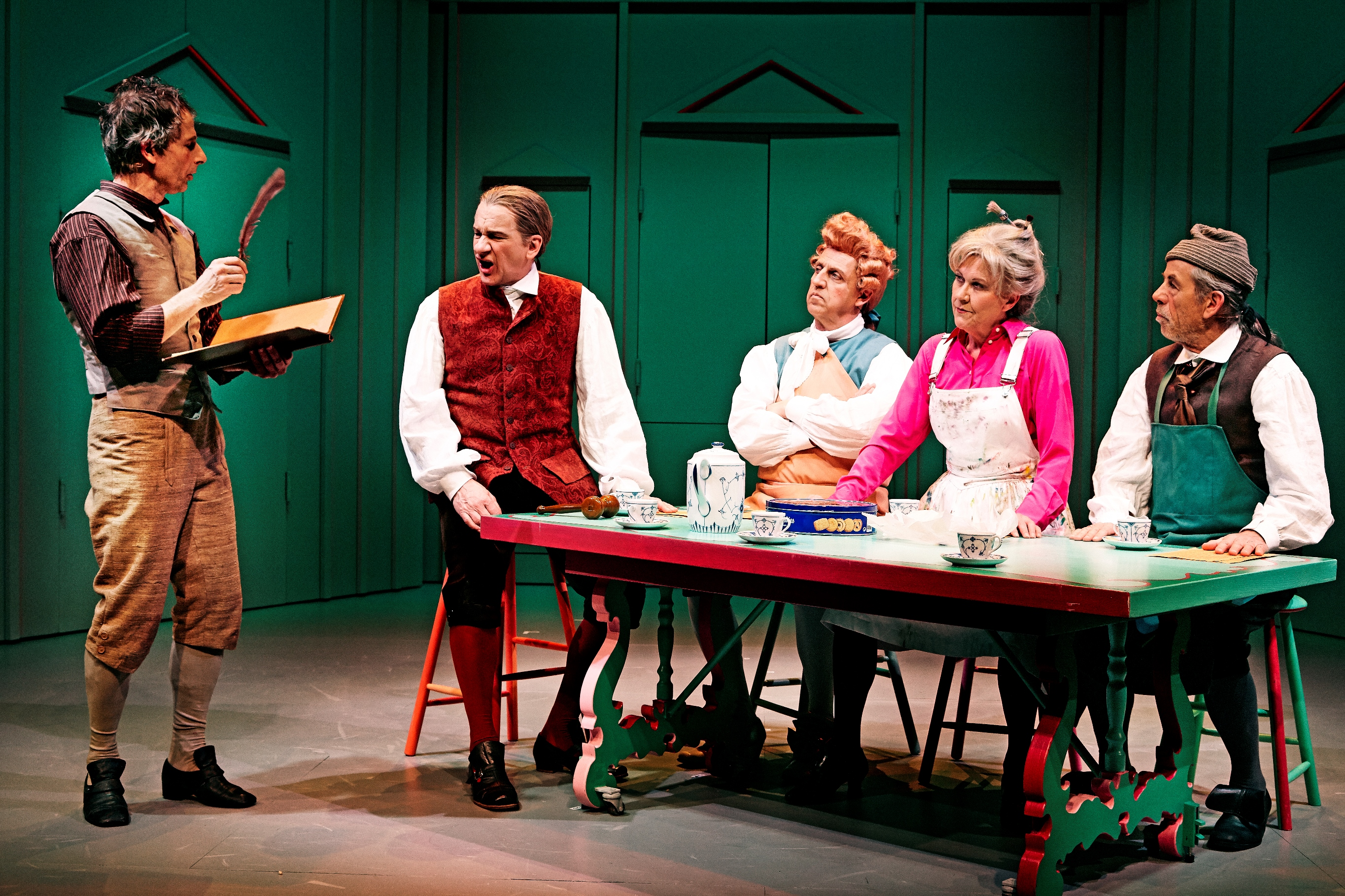 Kristian Holm Joensen, Henrik Koefoed, Søren Hauch-Fausbøll, Lisbeth Gajhede and Torben Zeller in the Copenhagen theater Folketeatret's production of the play "Den politiske kandestøber" by Ludvig Holberg.